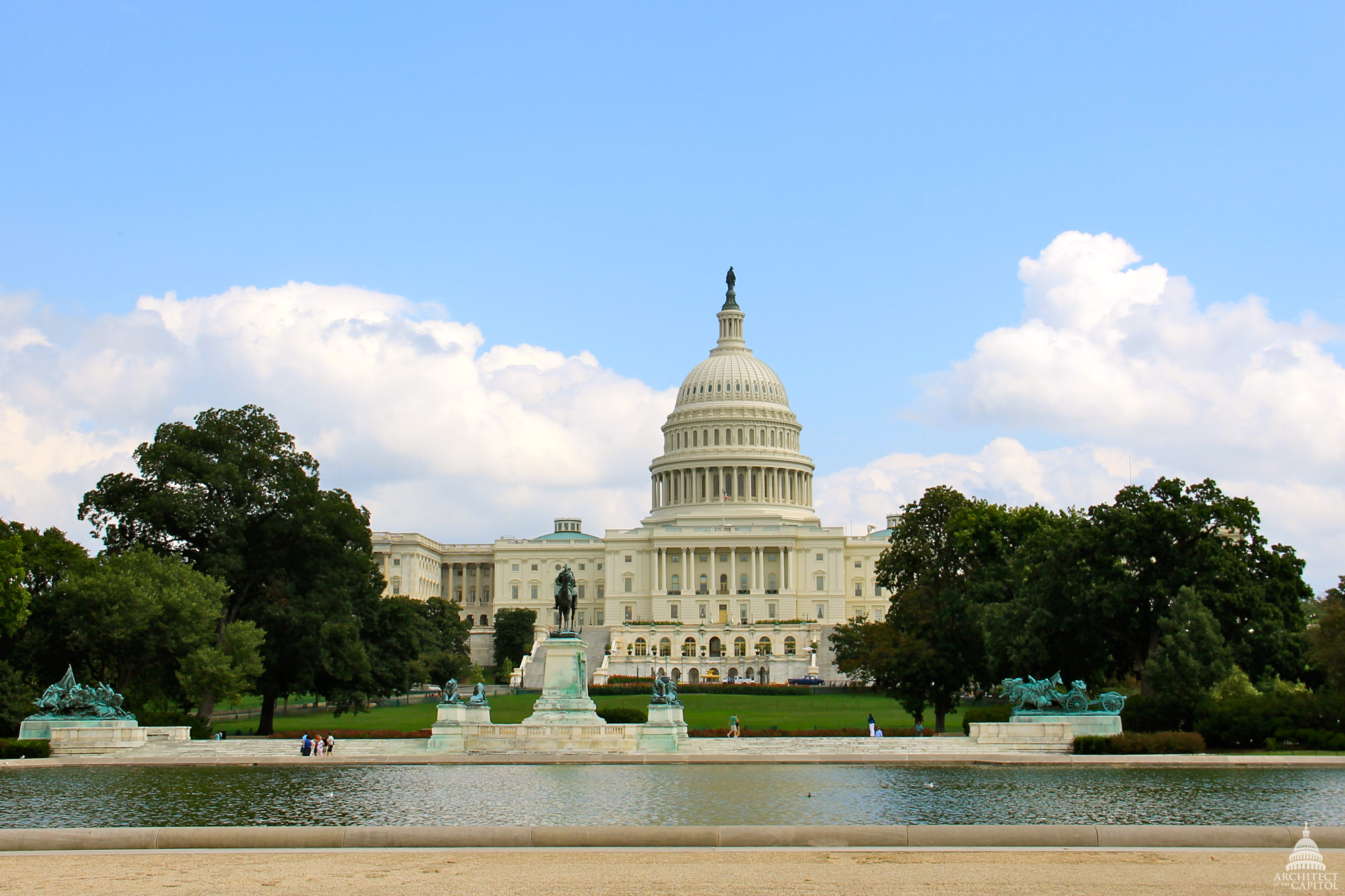 A summer view of the Capitol Reflecting Pool, Grant Memorial and U.S. Capitol Building. This official Architect of the Capitol photograph is being made available for educational, scholarly, news or personal purposes (not advertising or any other commercial use). When any of these images is used the photographic credit line should read “Architect of the Capitol.” These images may not be used in any way that would imply endorsement by the Architect of the Capitol or the United States Congress of a product, service or point of view. For more information visit